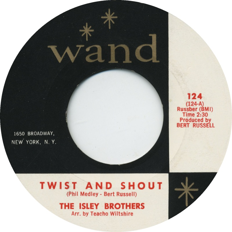 "Twist and Shout" by The Isley Brothers; US vinyl release